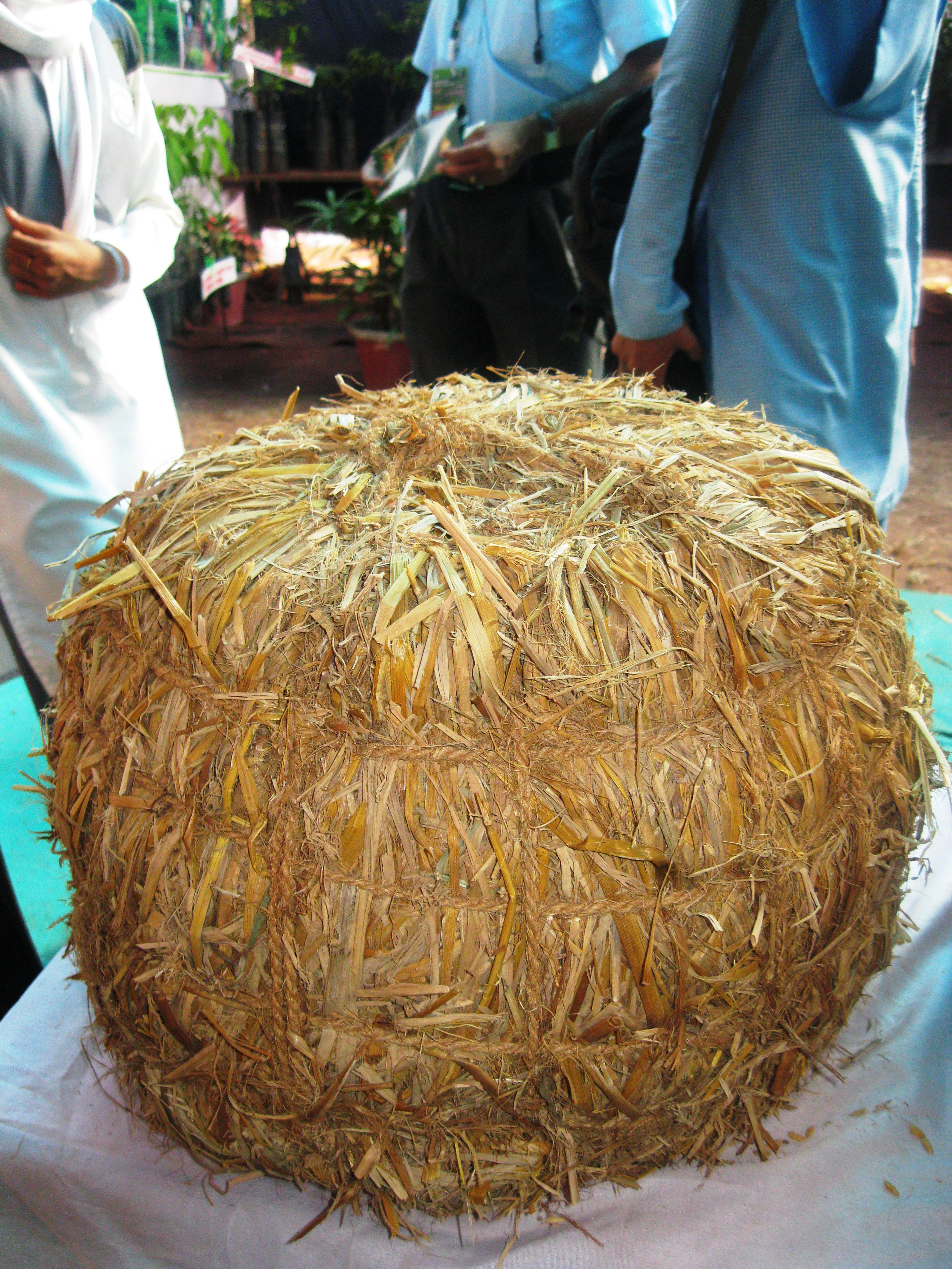 keala farmers keep paddy seed in pothi made of hay